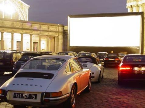 drive-in movies 2008 in brussels with AIRSCREEN